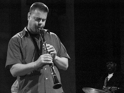 Ken Vandermark in Aarhus, Denmark